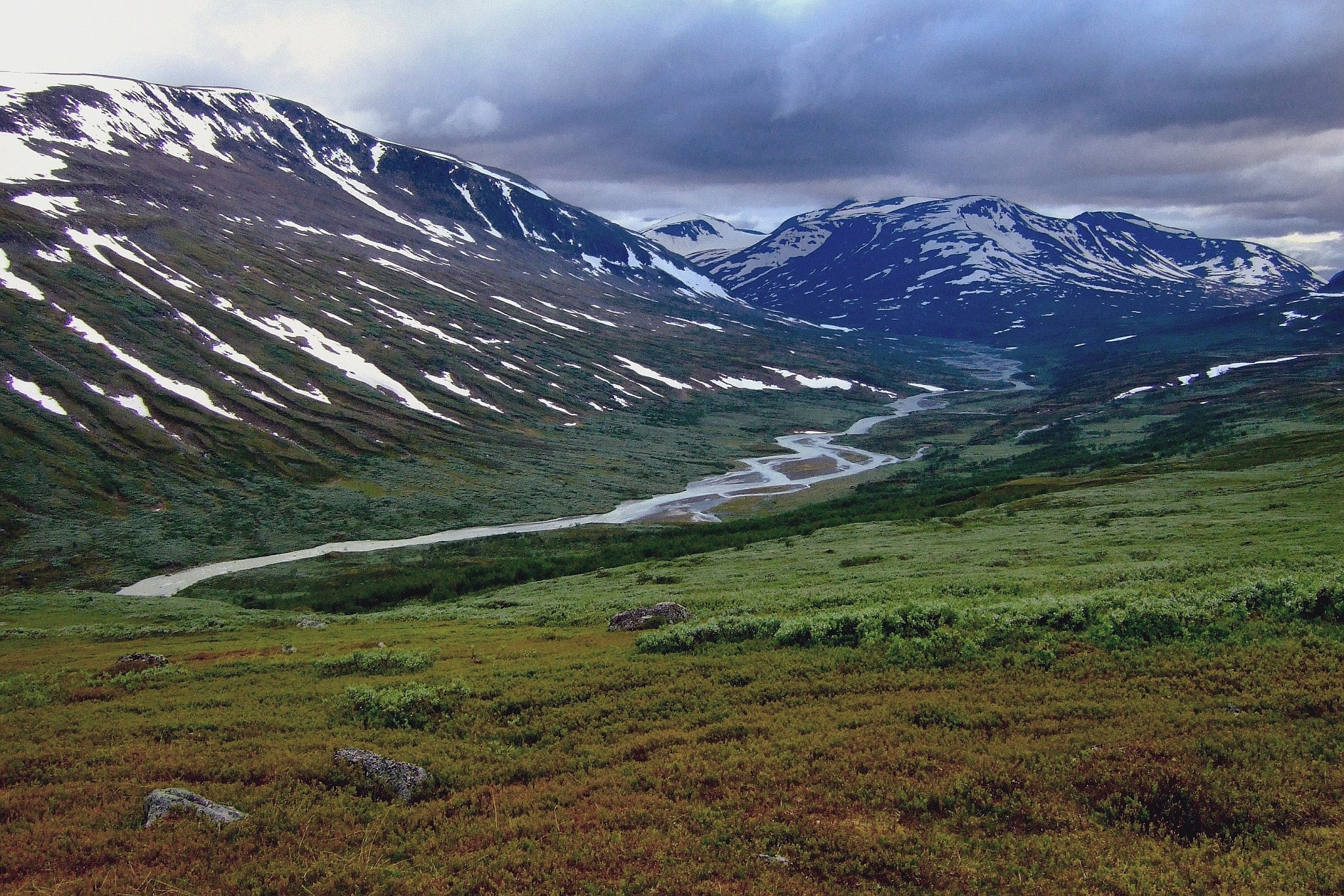 Rapadalen in Sarek, taken from the slopes of Pielavalta.